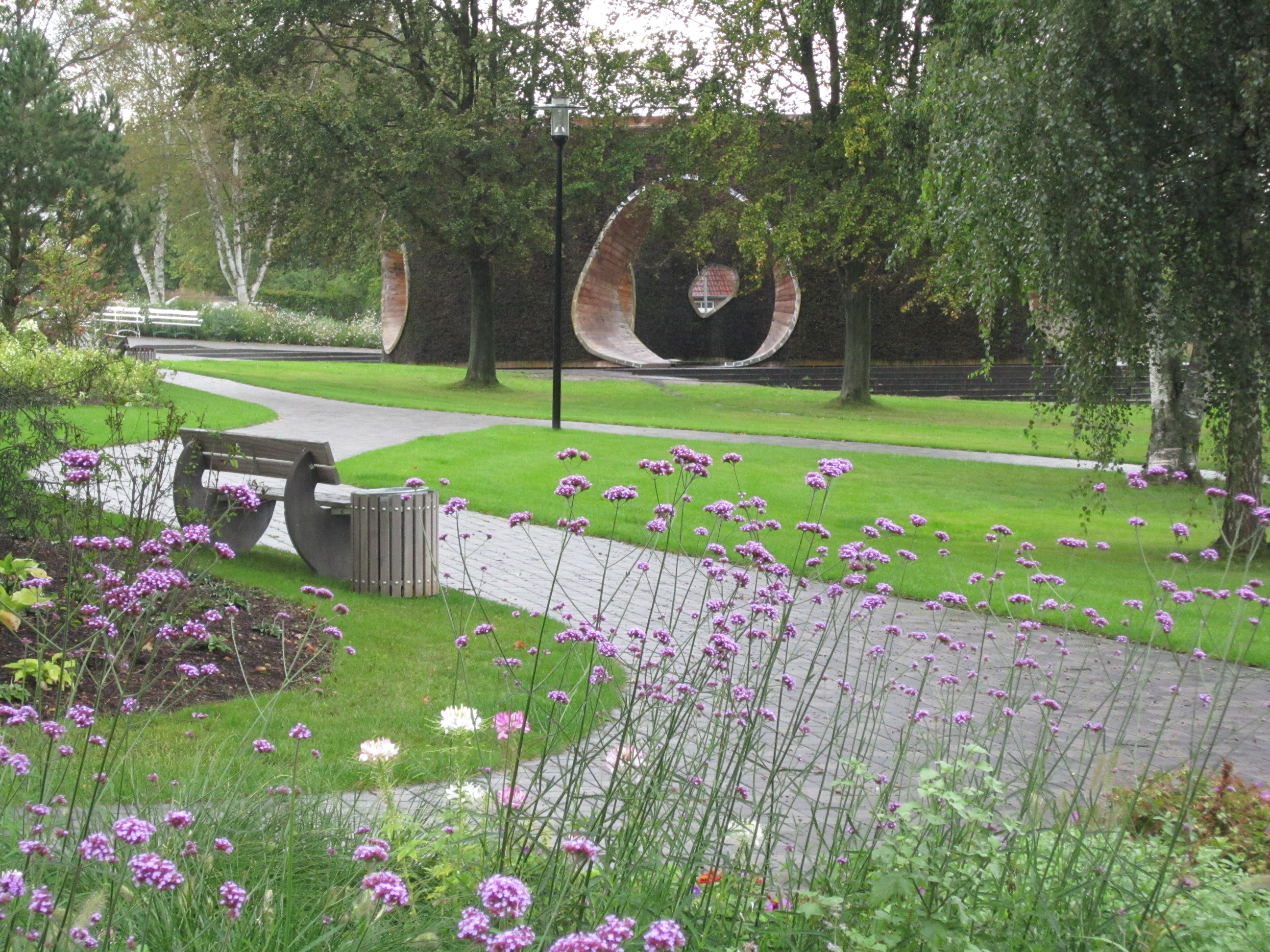 Health-resort park Bad Essen; in the background the miniature saline built during the "Landesgartenschau 2010"